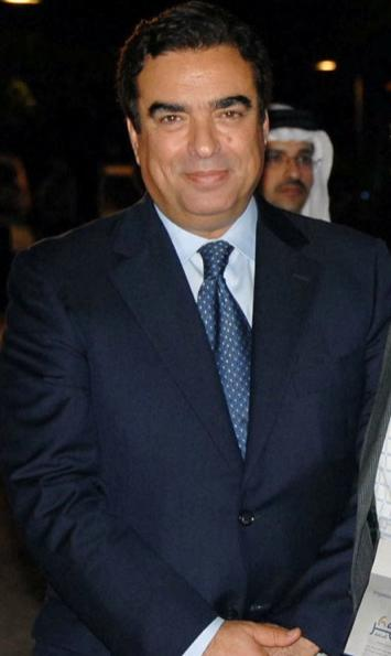 George Kurdahi is a Lebanese television presenter.